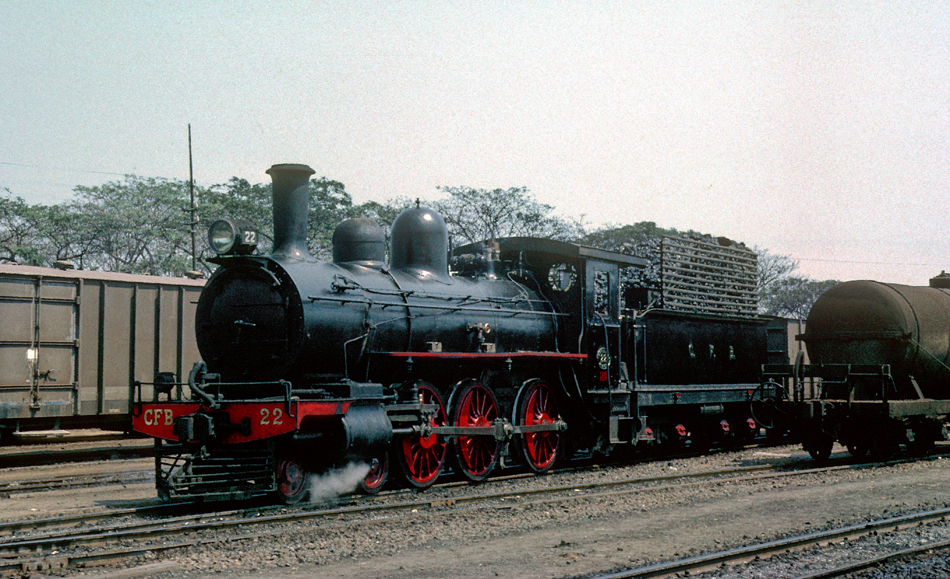 CFB (Benguela Railway) Class 6 22 (4-6-0)Ex Cape Government Railways Class 6 218Builder's Number: Neilson 5139Location: Benguela, Angola